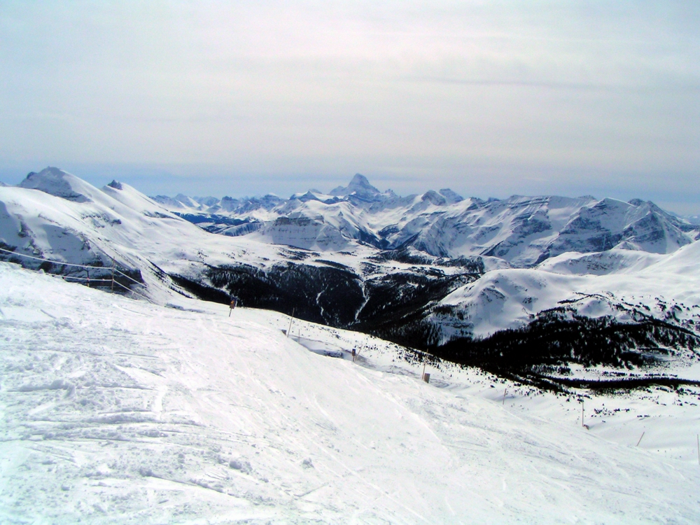 Mount Assiniboine seen from Sunshine Village